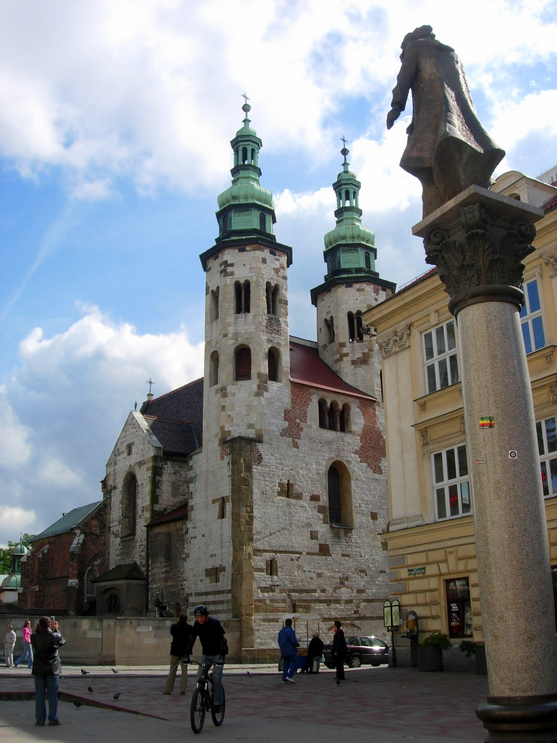 St. Andrew's Church in Kraków